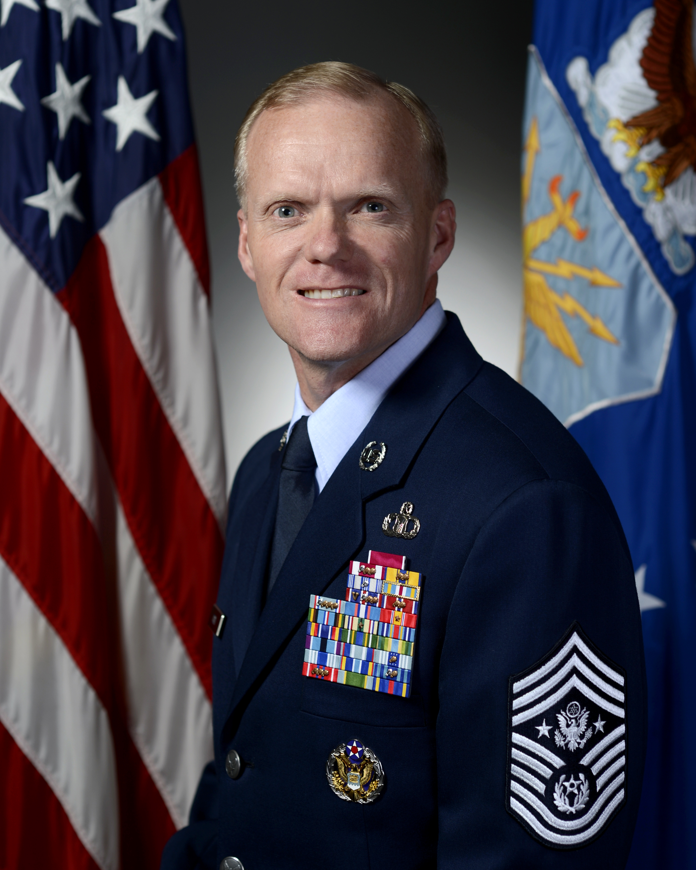 CMSAF James A. Cody, 17th Chief Master Sgt. of the Air Force